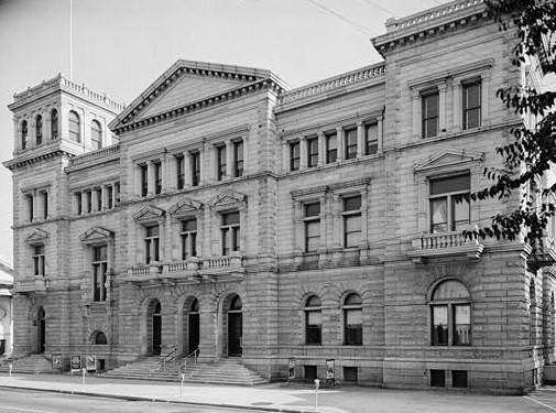 The U.S. Post Office and Courthouse Building — Broad & Meeting Streets, Charleston - Charleston County, South Carolina. 1963 image from the Historic American Buildings Survey of South Carolina (cropped).